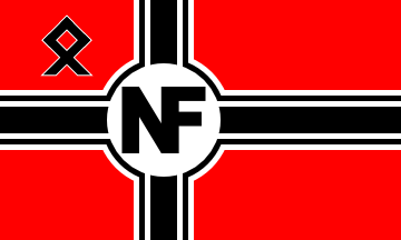 Odal rune on flag of the British party National Front. The party was founded in 1967